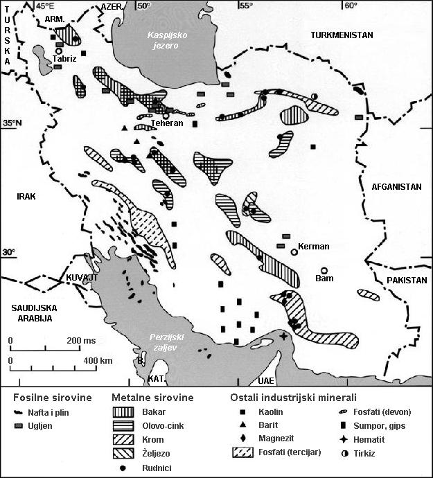 Iran's major mineral deposits (Croatian)